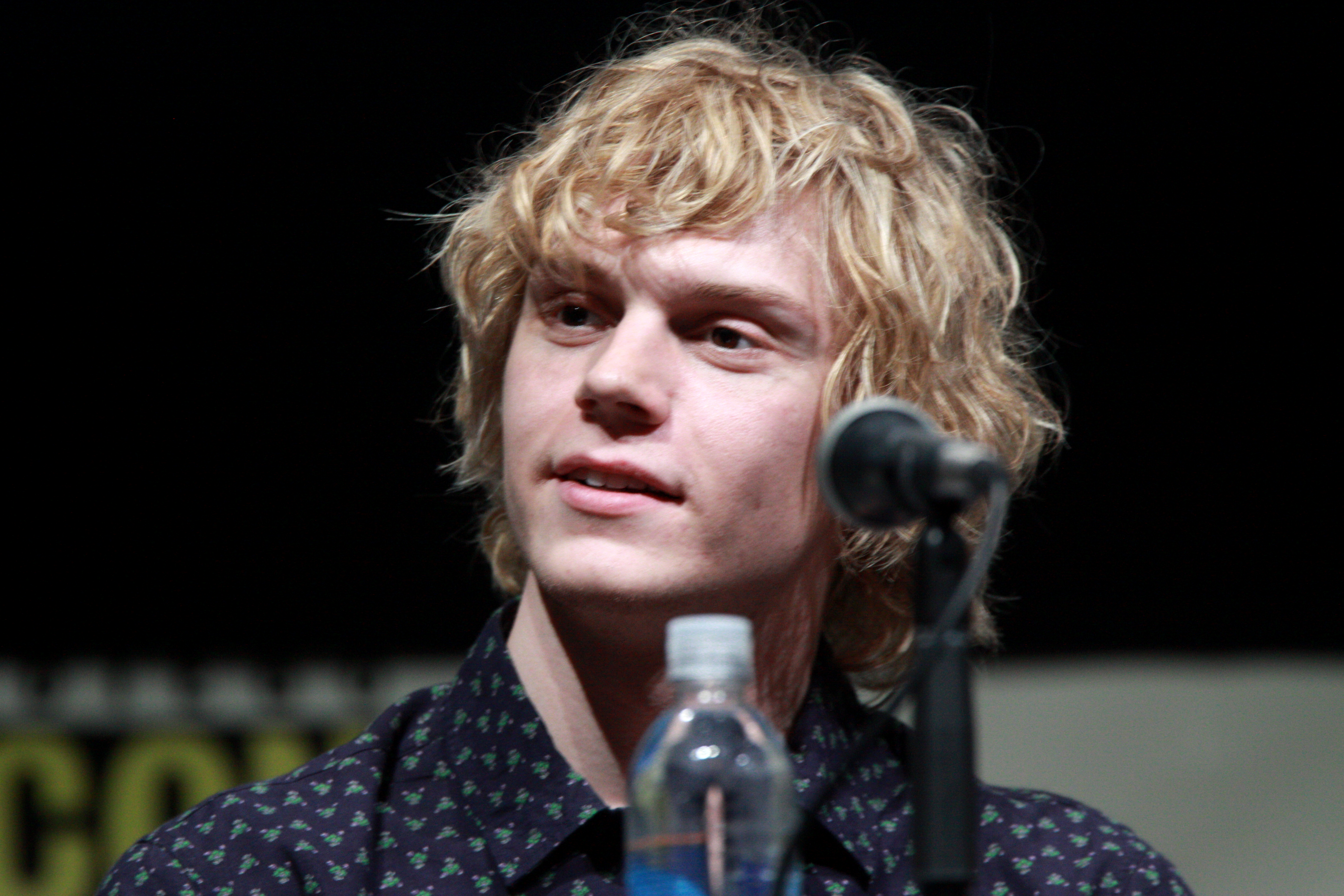 Evan Peters speaking at the 2013 San Diego Comic Con International, for "X-Men: Days of Future Past", at the San Diego Convention Center in San Diego, California.